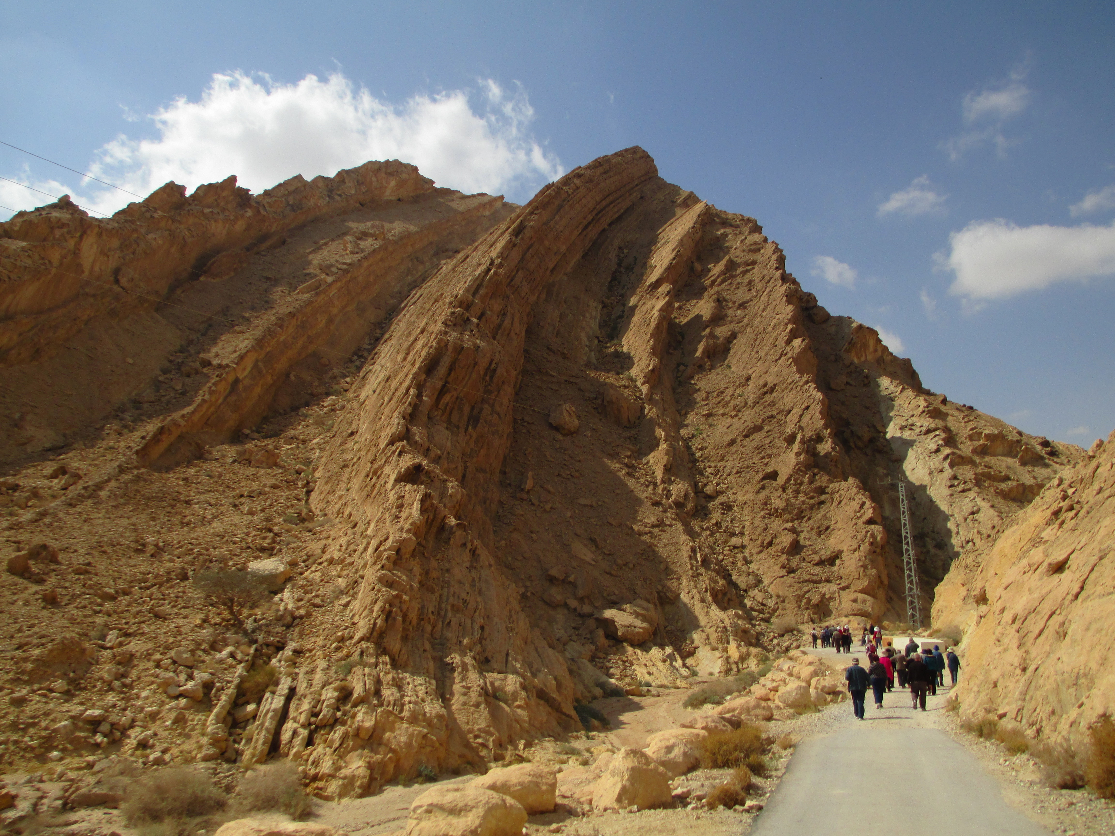 Entrance to the small makhtesh in the Negev